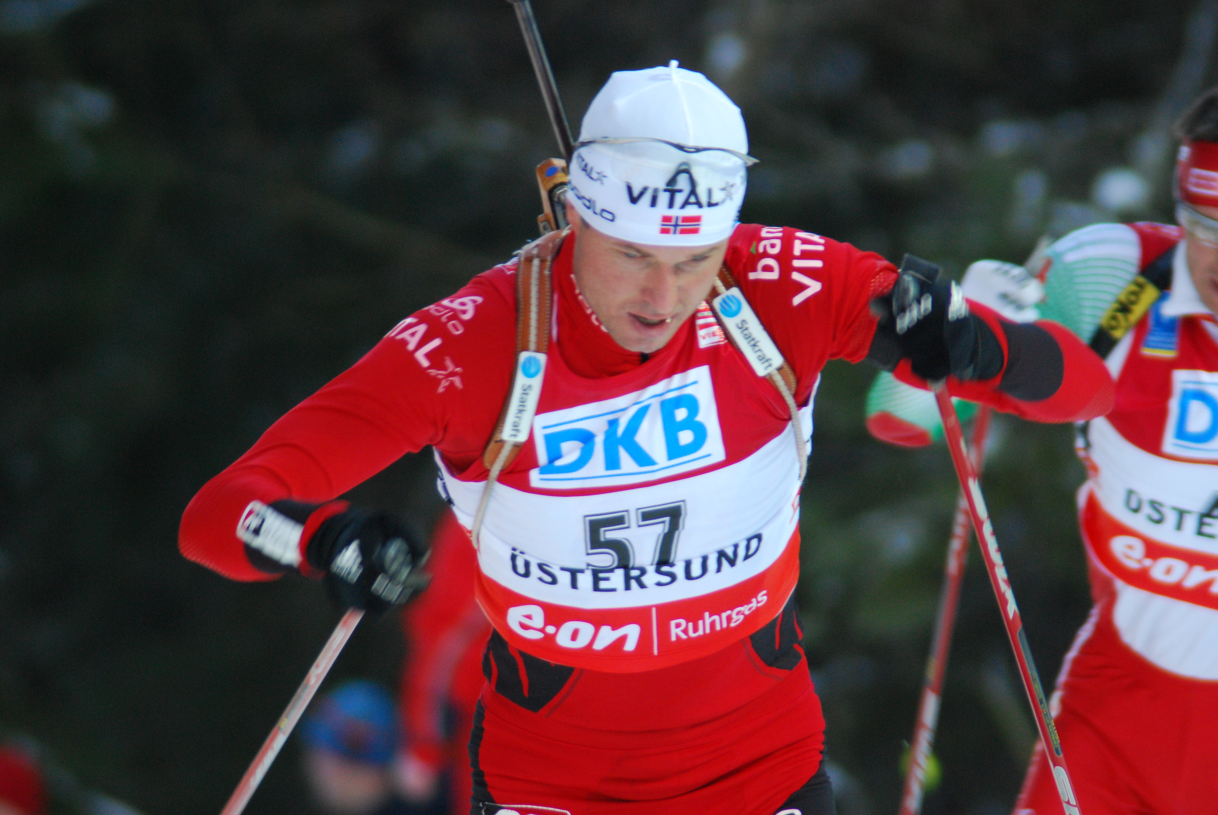 Norwegian biathlete Frode Andresen during the World Championships in Östersund 2008.